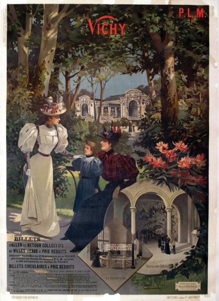 Poster of the PLM railway company, France: Vichy.